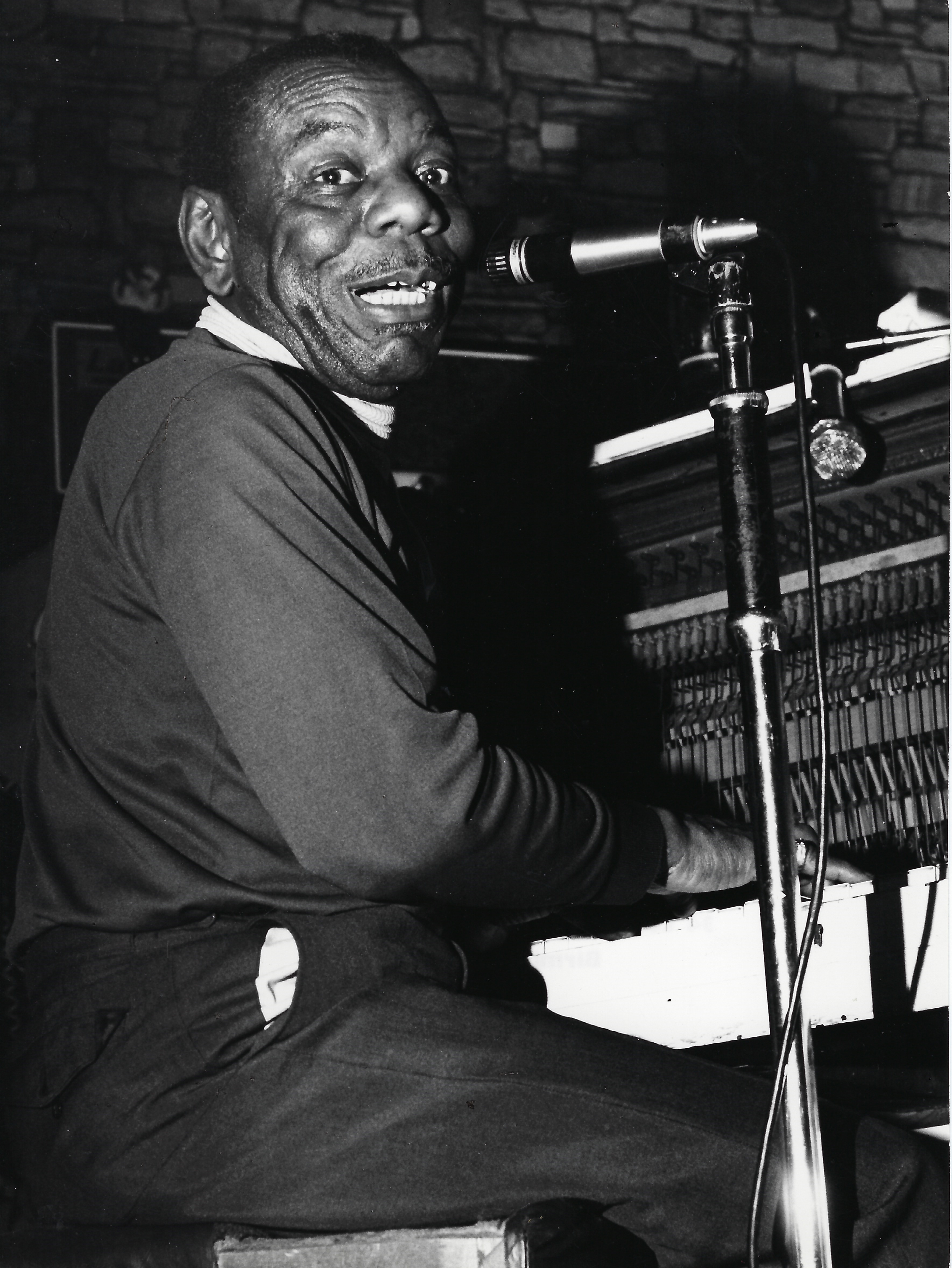 Champion Jack Dupree performing at Henry's Blueshouse